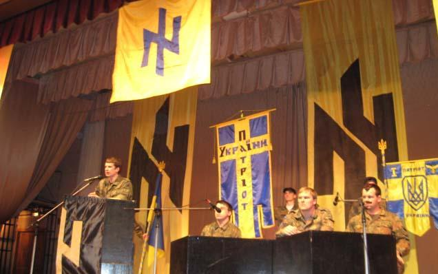 The Second Congress of the «Patriots of Ukraine» in Kharkov, April 12, 2008.